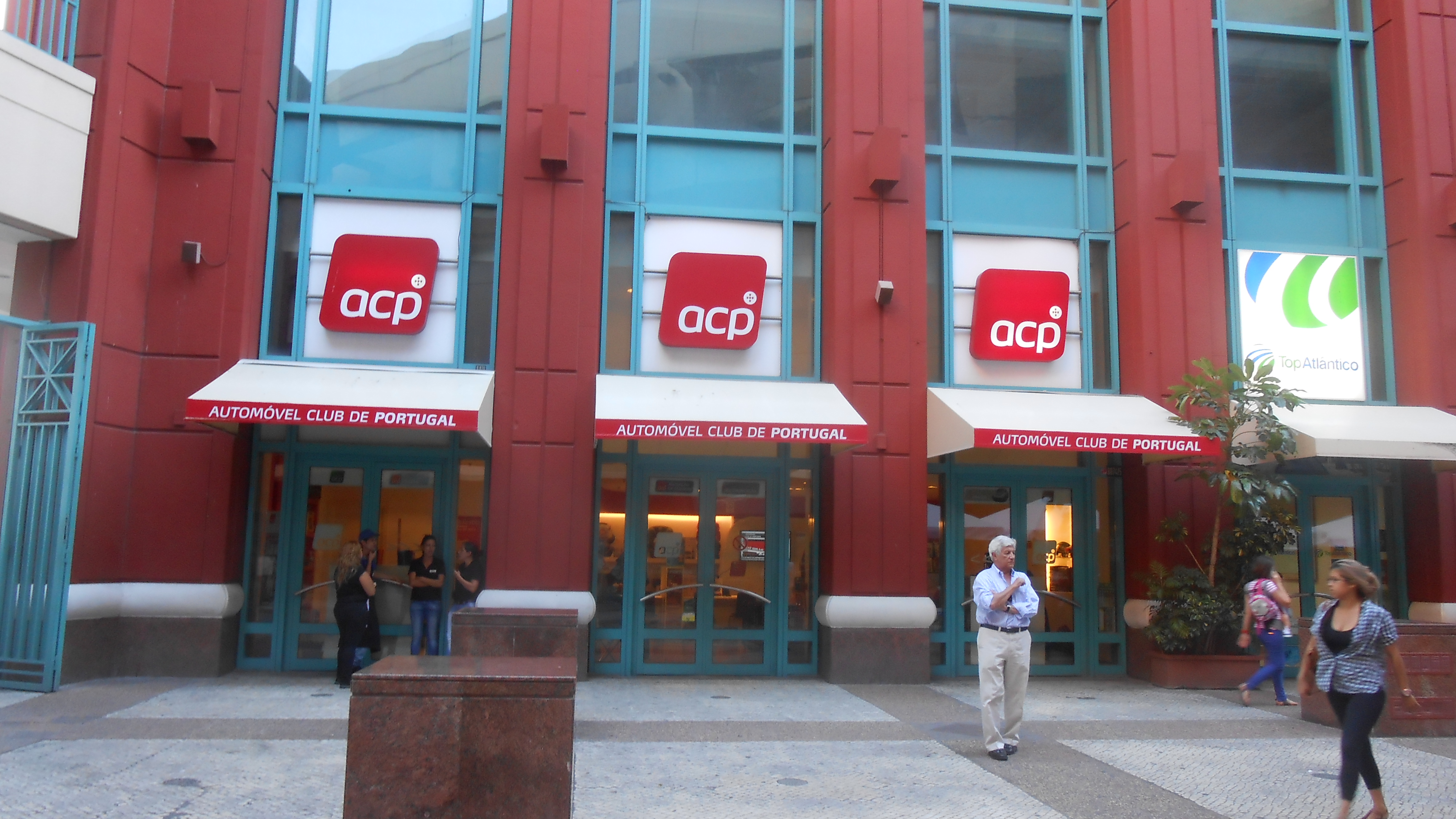 Branch of the portuguese automobile association ACP in the Colombo Shopping Centre in Lisbon.